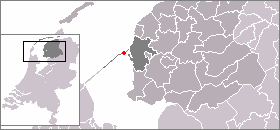 Map with Position of Kornwerderzand